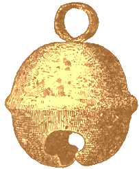 Copper hawk's bell, from the time of the de Soto Entrada in to the American Southeast. From a Mississippian culture mound in the state of Tennessee.